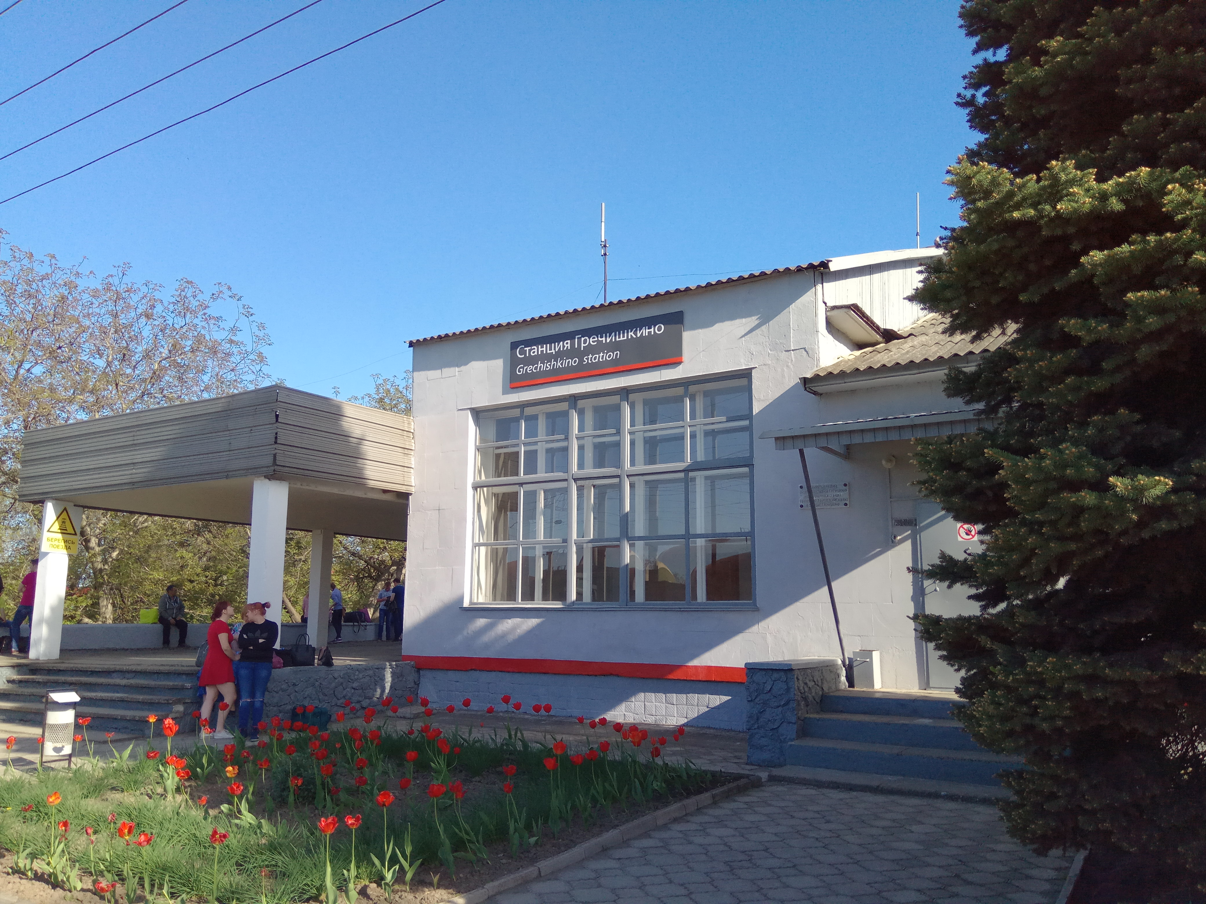 Grechishkino railway station in Northern Caucasus railway in Tbilisskaya stanitsa, Krasnodar Krai